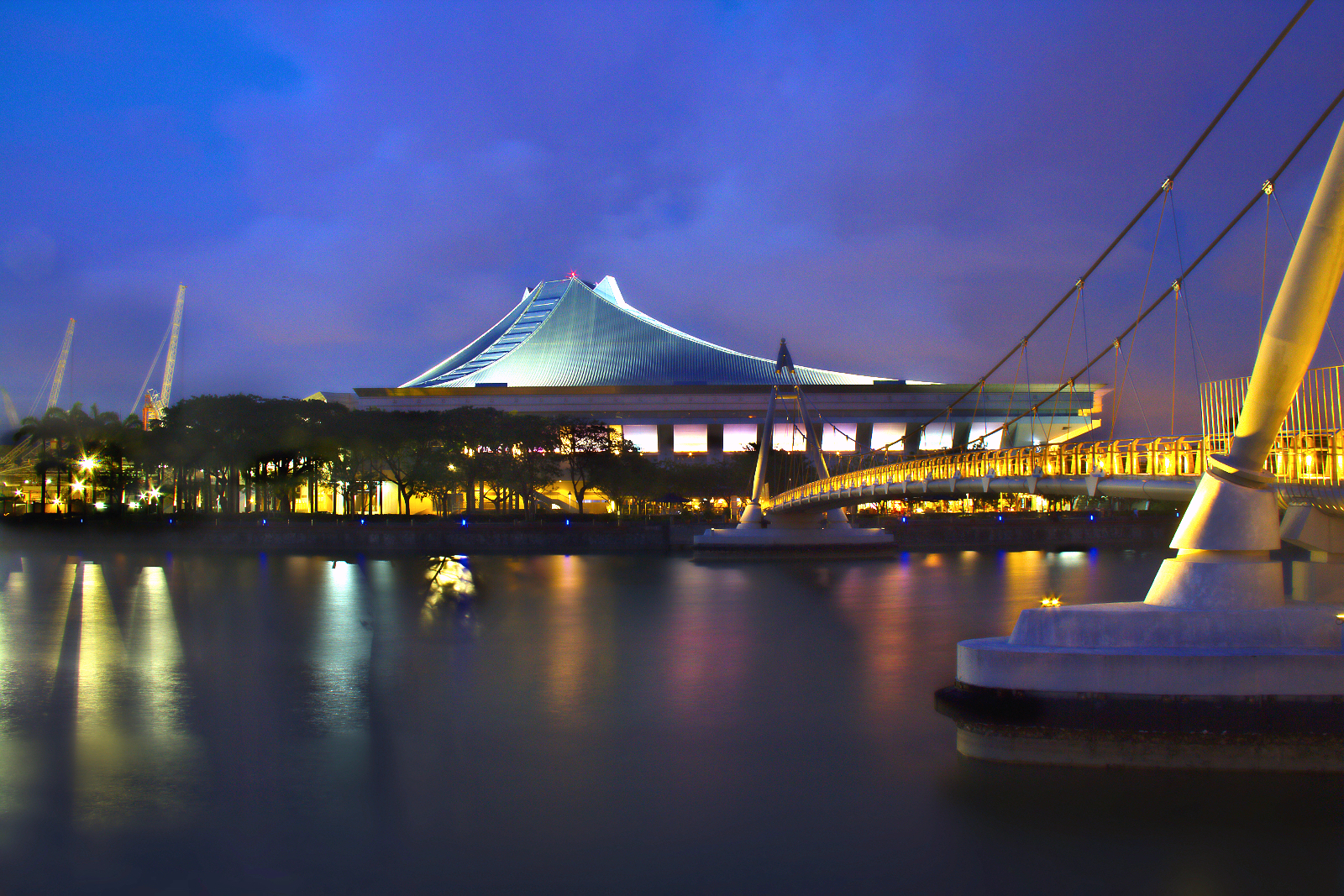 A challenging shot considering the construction on the left and the obstructing trees